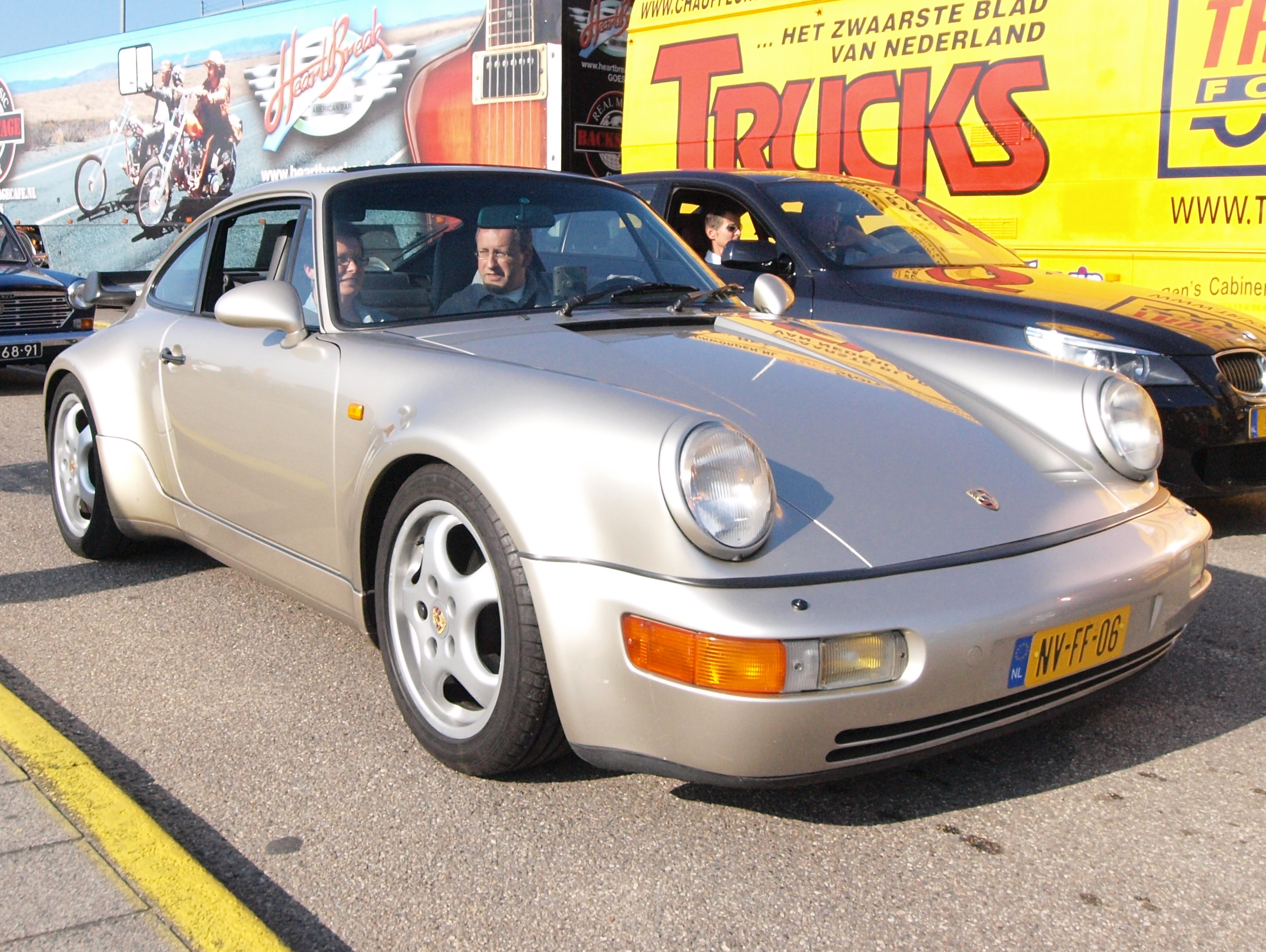 Photographed at the Nationaal Oldtimer Festival Zandvoort 2009, The Netherlands. OLYMPUS DIGITAL CAMERA